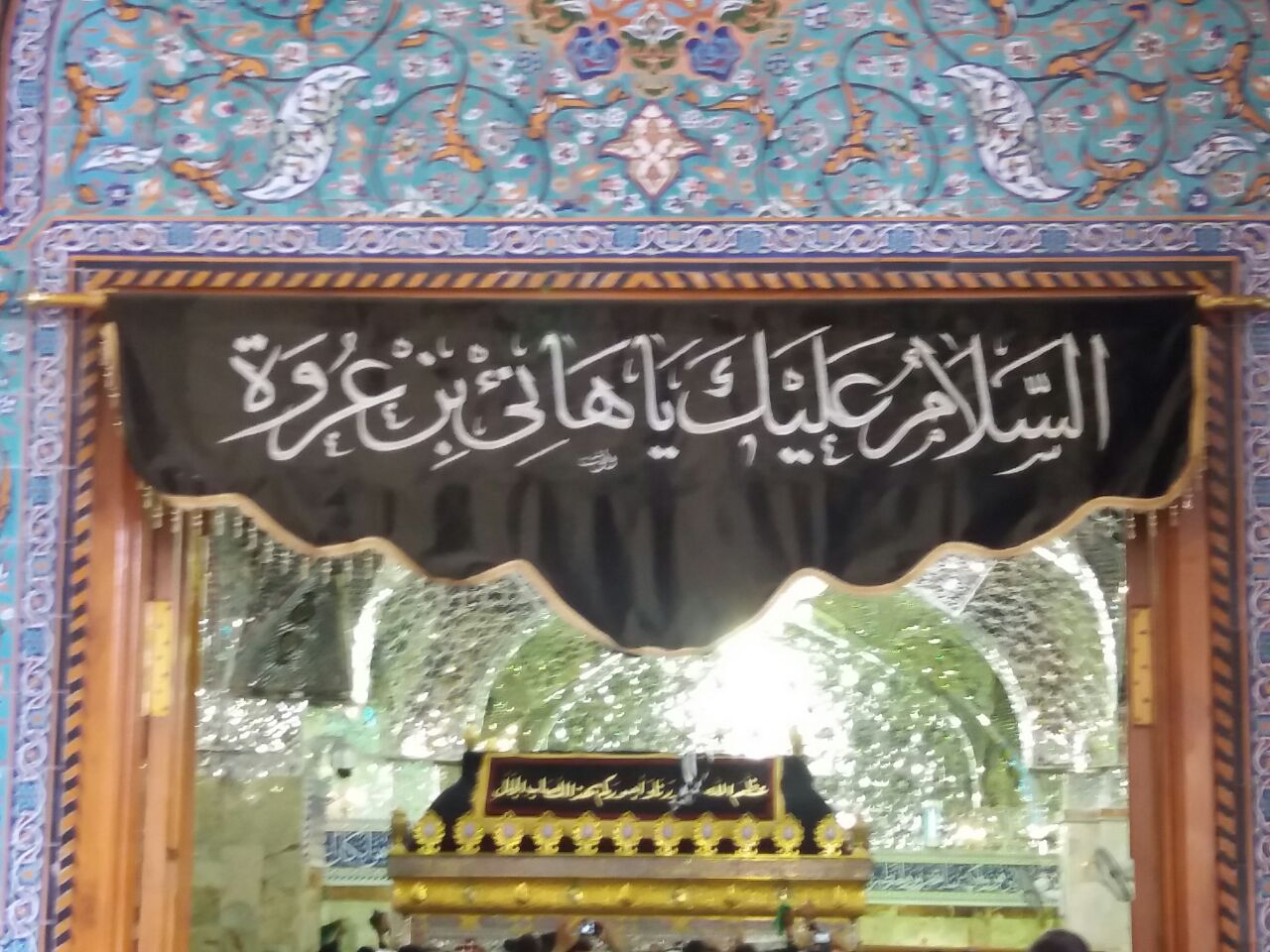 Holy Shrine of Hussein ibn Ali's companion